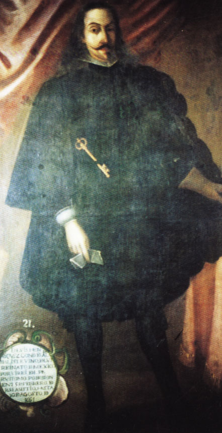 Luis Enríquez de Guzmán, 9th Count of Alba de Liste (c.1600-1667)